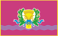 Flag of Zmijivskyj district (Ukraine)